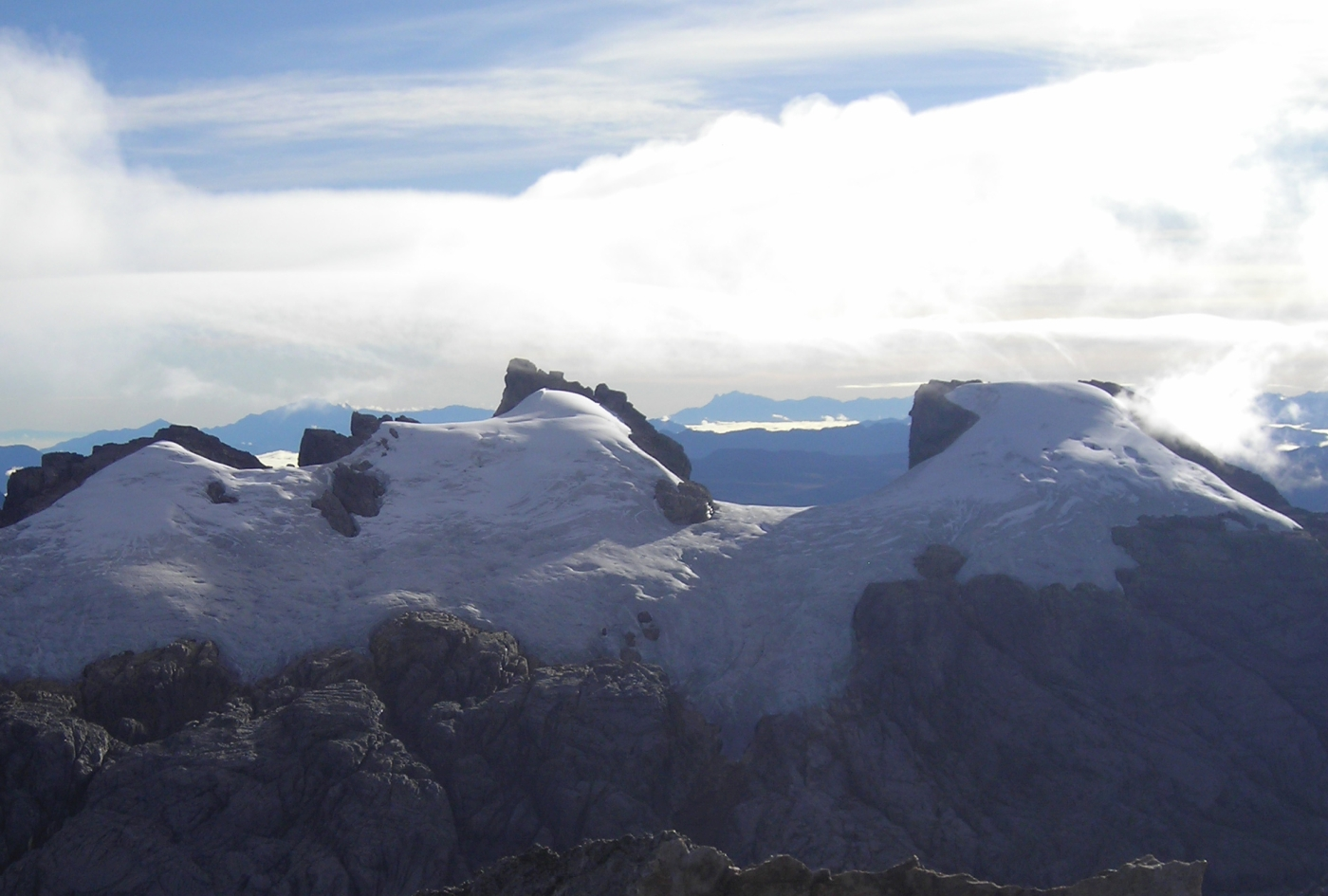 Sumantri (center) with Ngga Pulu (right) seen from Carstensz Summit. Photo by Christian Stangl flickr